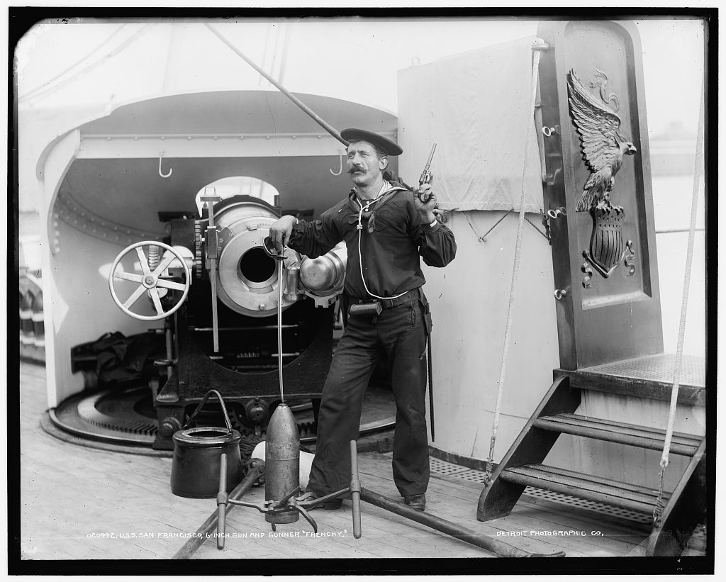 "U.S.S. San Francisco, 6-inch (30-cal. Mk 3) gun and gunner Frenchy".